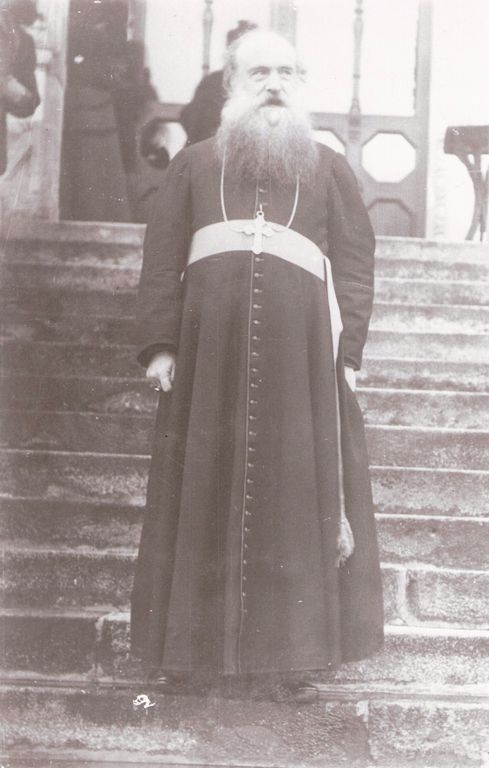 Bishop Emile Grouard.